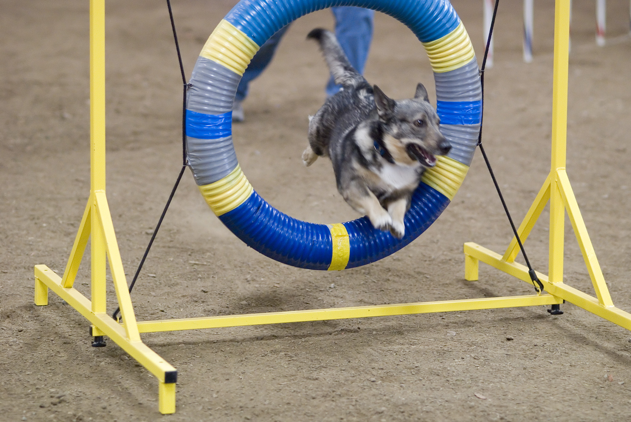 A Swedish Vallhund during an agility competition